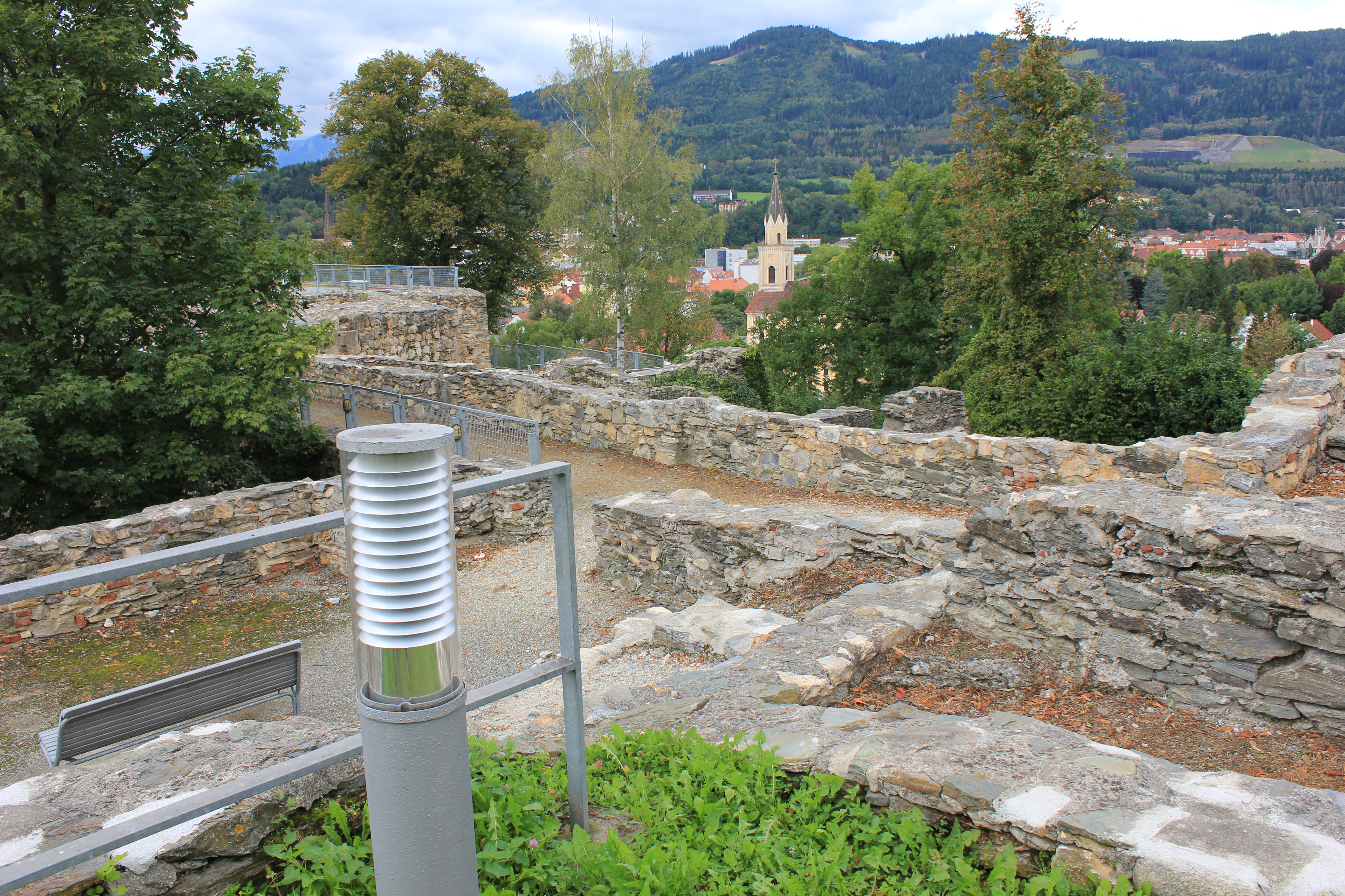 Ruine Massenburg